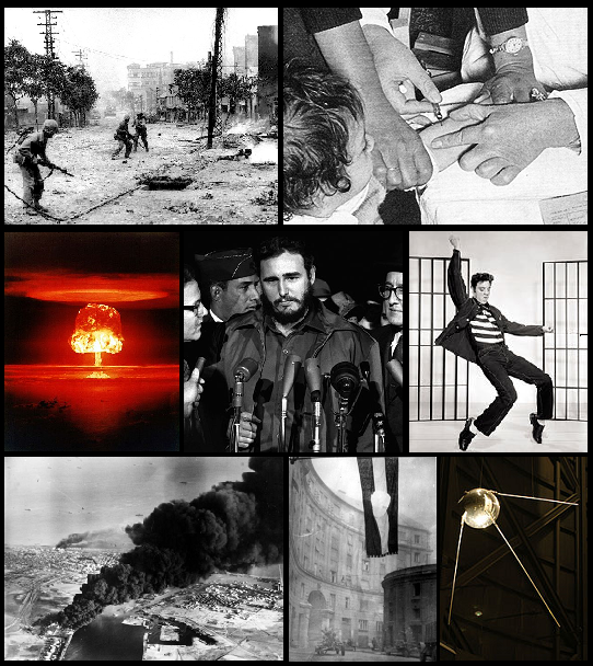 A montage of notable events in the 1950s.